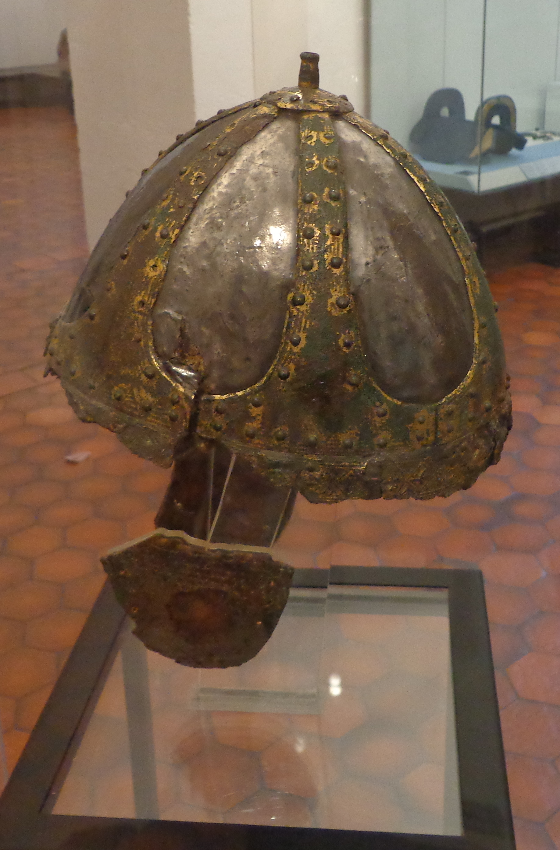 A 6th-century Merovingian helmet kept in the archaeological museum of Strasbourg, France